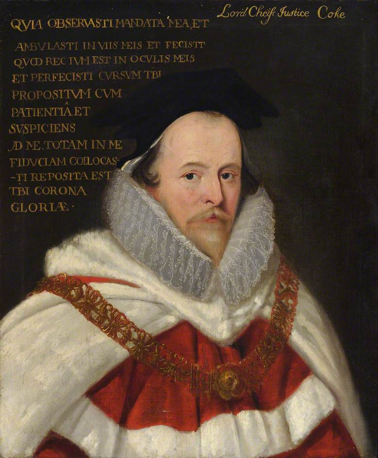 Portrait of Edward Coke (1552-1634), Lord Chief Justice, at Trinity College, Cambridge.